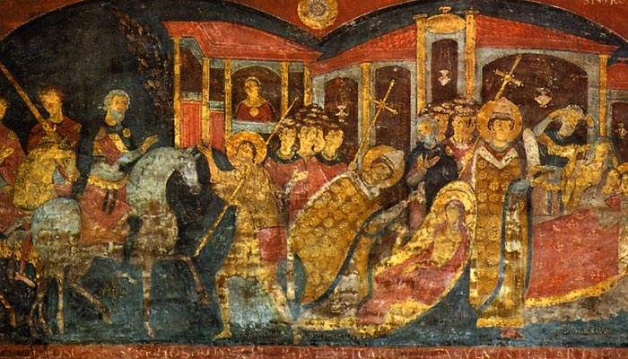 Alexius of Rome in San Clemente, fresco from the 11th century.